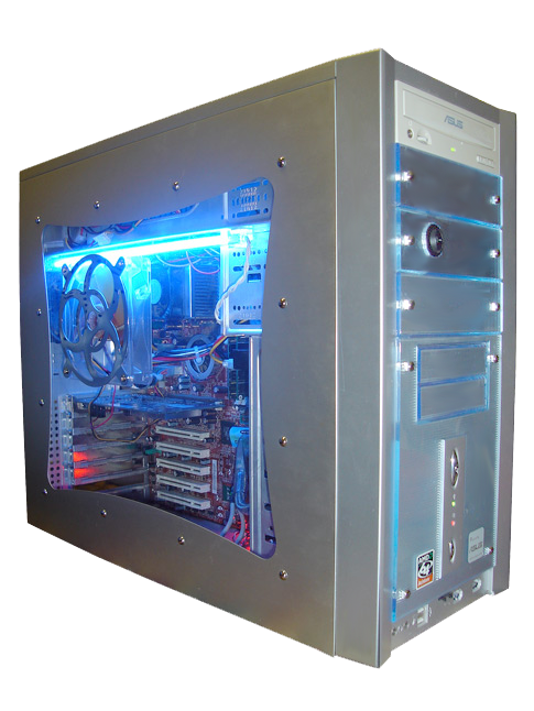 Image of my modified pc case, taken by myself. Modifications include: Blue cold cathode lights, switch for lights, perspex side window, and a side mounted fan for extra cooling.